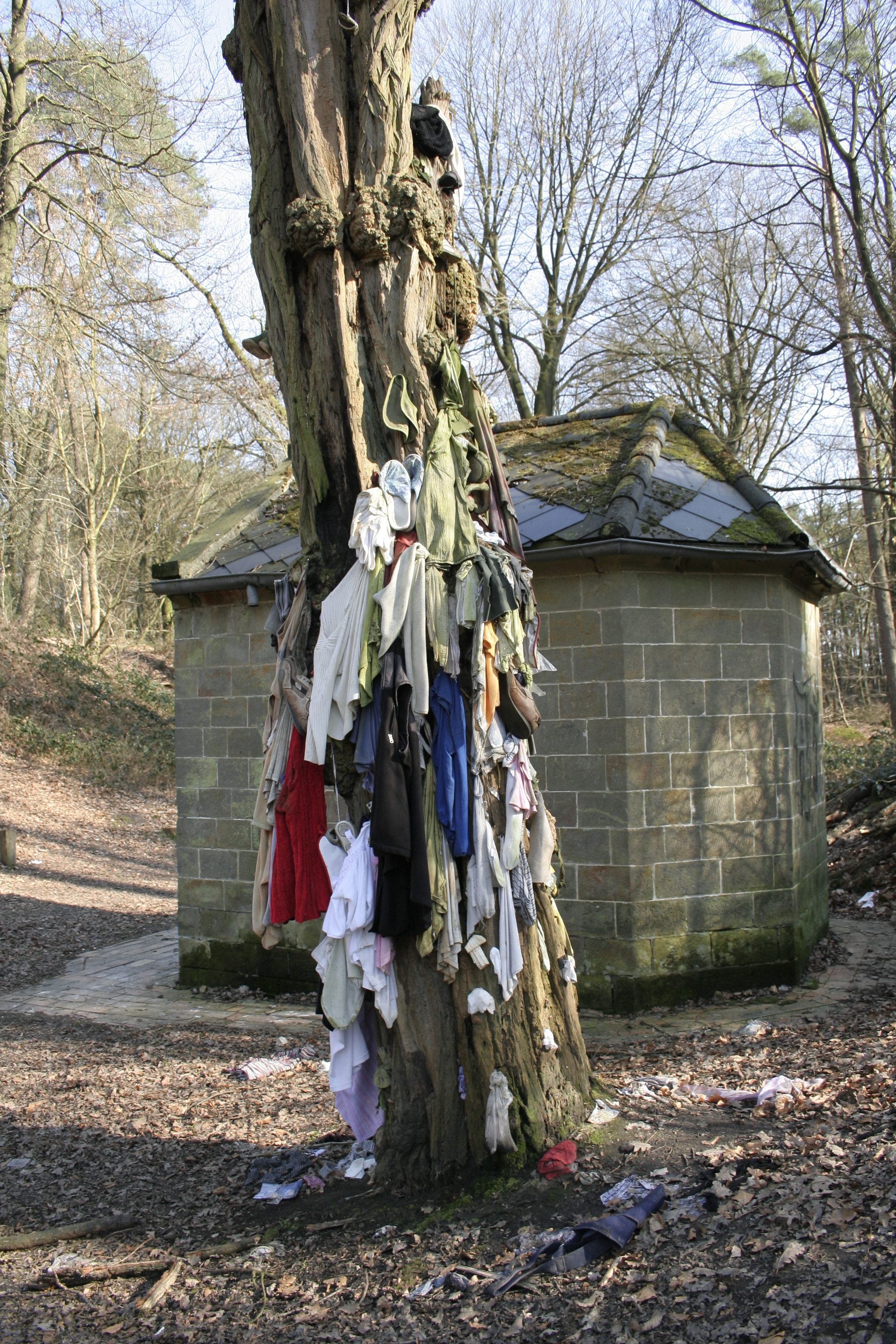 Black locust (Robinia pseudoacacia).